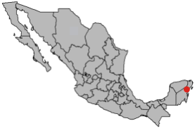 Location map of Tulum, México.